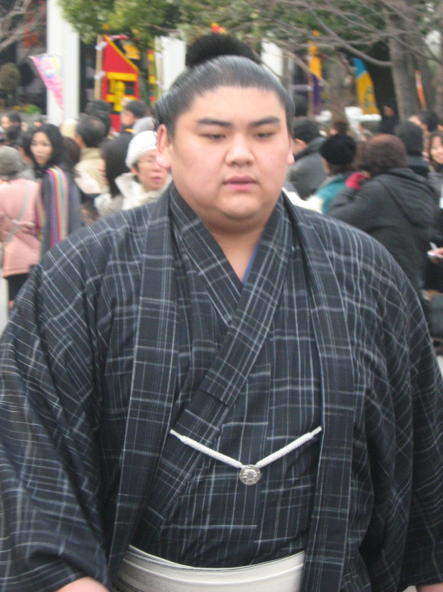 This is a photograph I took at a recent sumo tournament that I release the rights of. User:FourTildes 08:35, 31 May 2008 . . FourTildes . . 1,555×2,079 (1.27 MB)